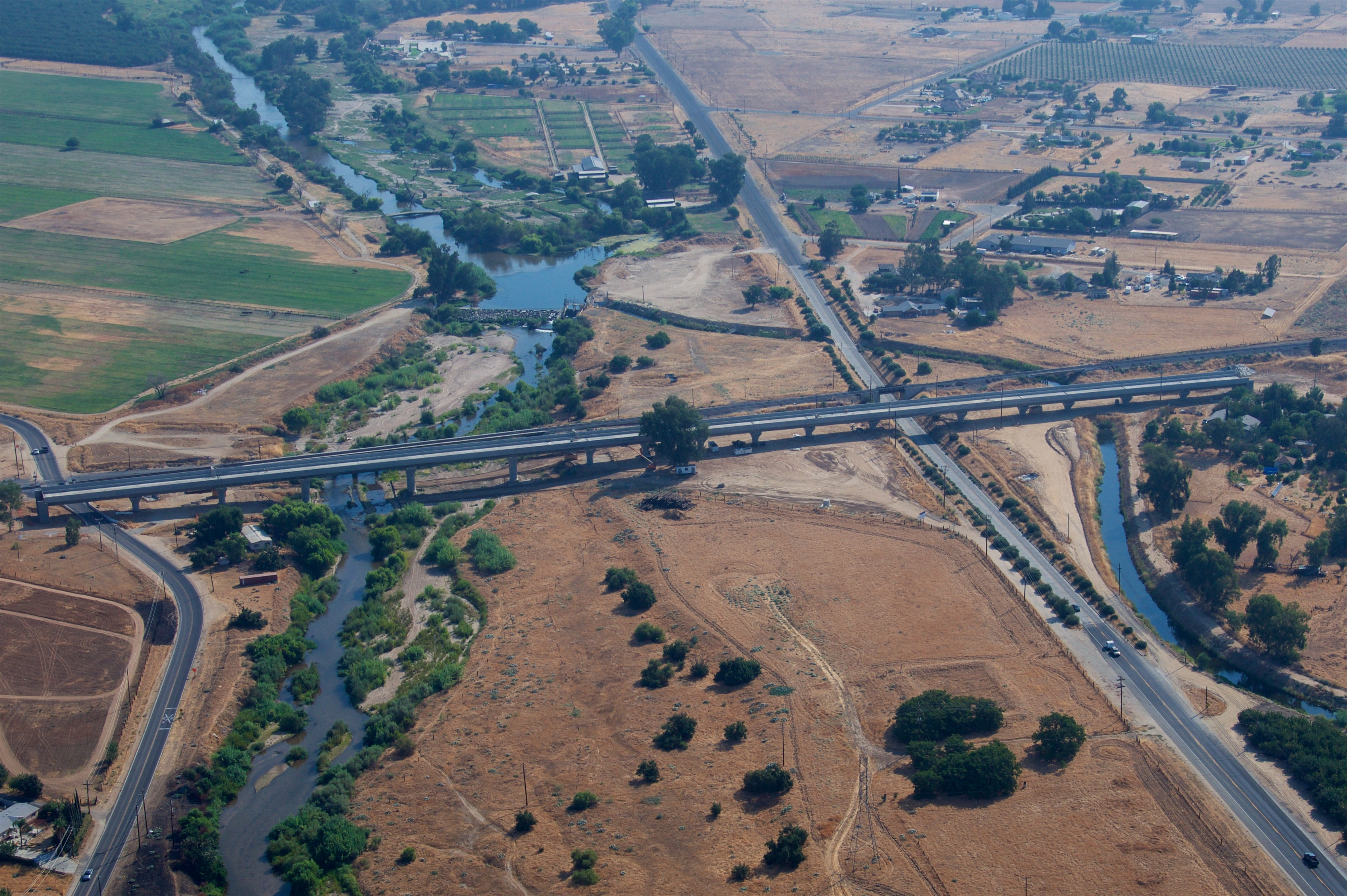 Aerial photograph of California High-Speed Rail's Fresno River Viaduct over the Fresno River and California State Route 145 near the end of construction in August 2017.